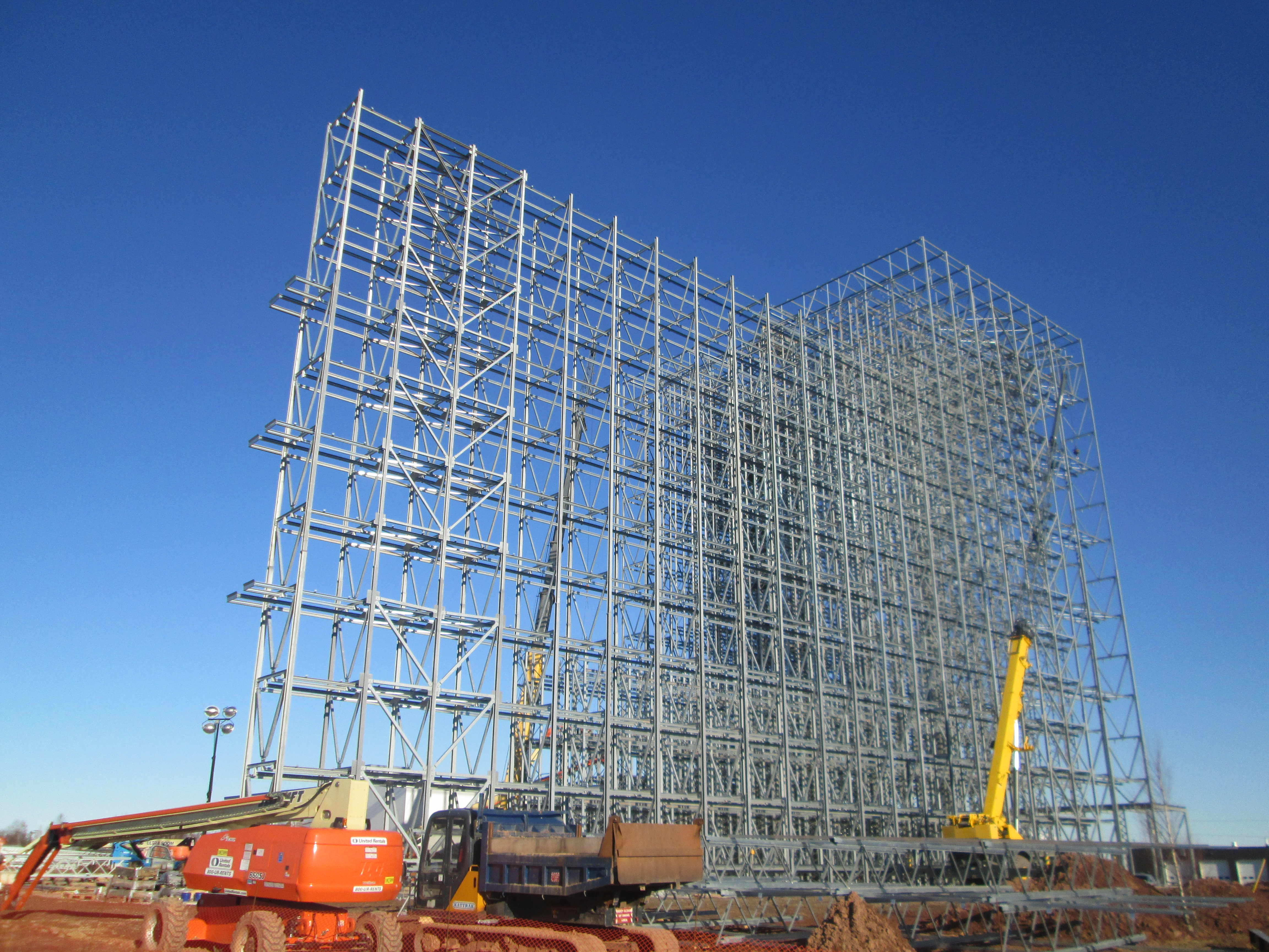 High Bay Racking Supported Cold Storage Building under construction (info)